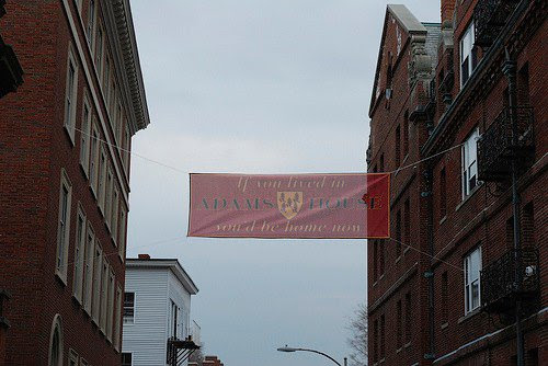 A sign suspended between buildings belonging to Adams House at Harvard College, on Housing Day 2010. It reads "If you lived in Adams House, you'd be home now."